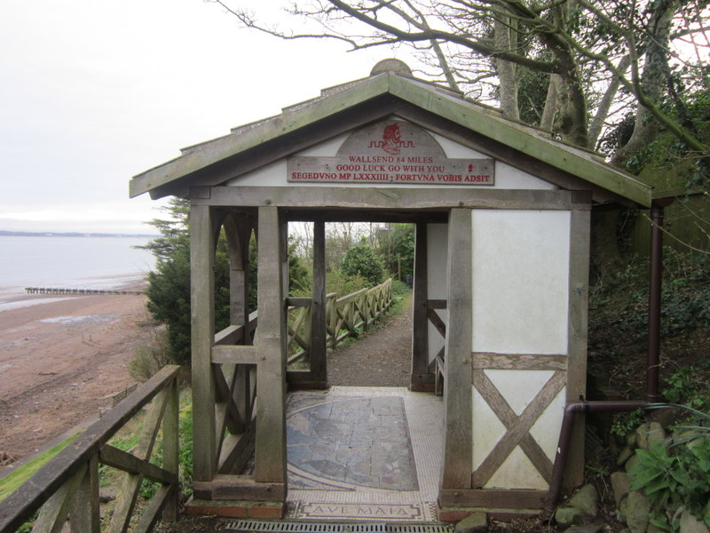 The start of the Hadrian's Wall Walk at Bowness-on-Solway, Cumberland